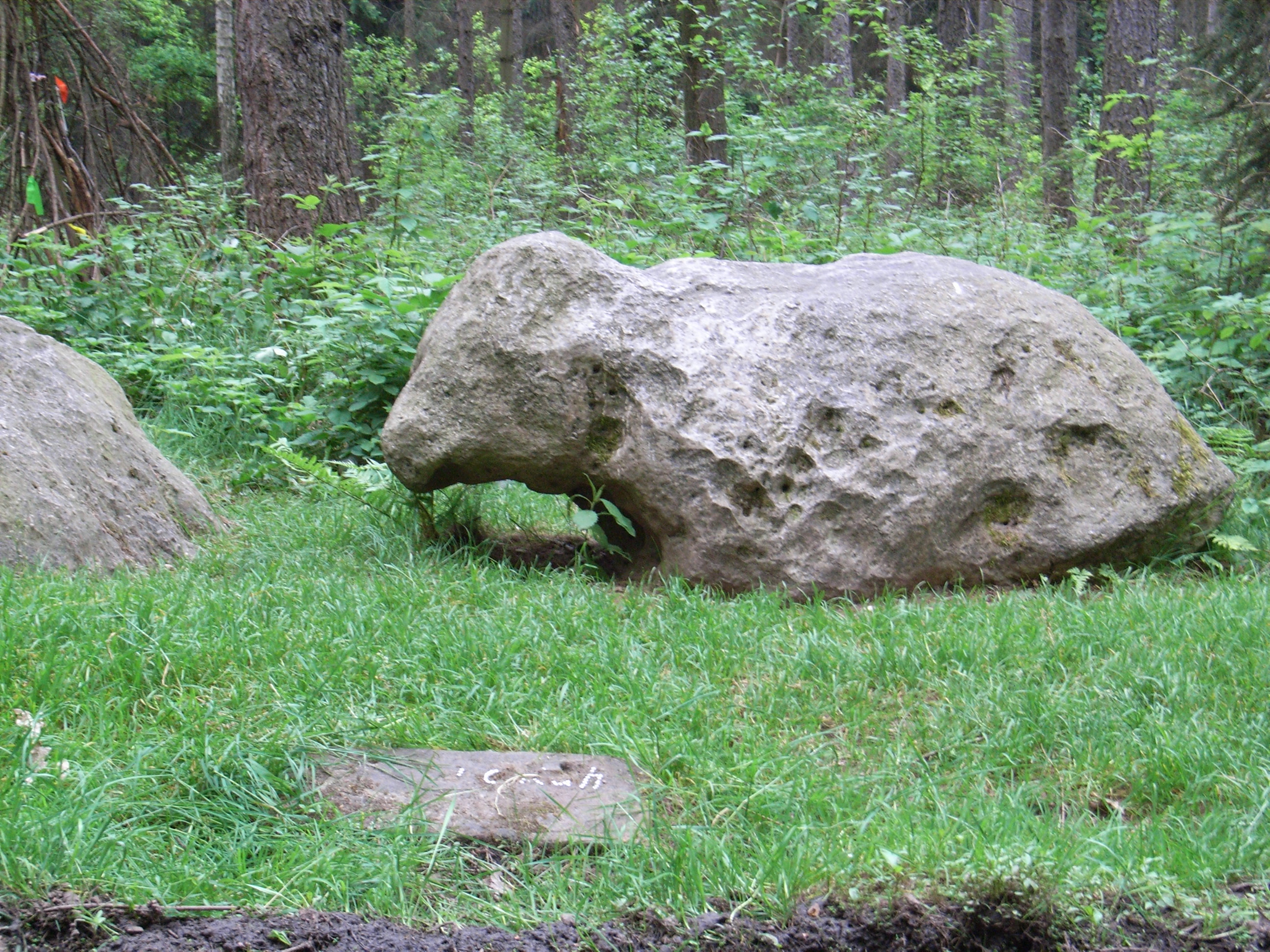 Stone cow in Rümpfwald